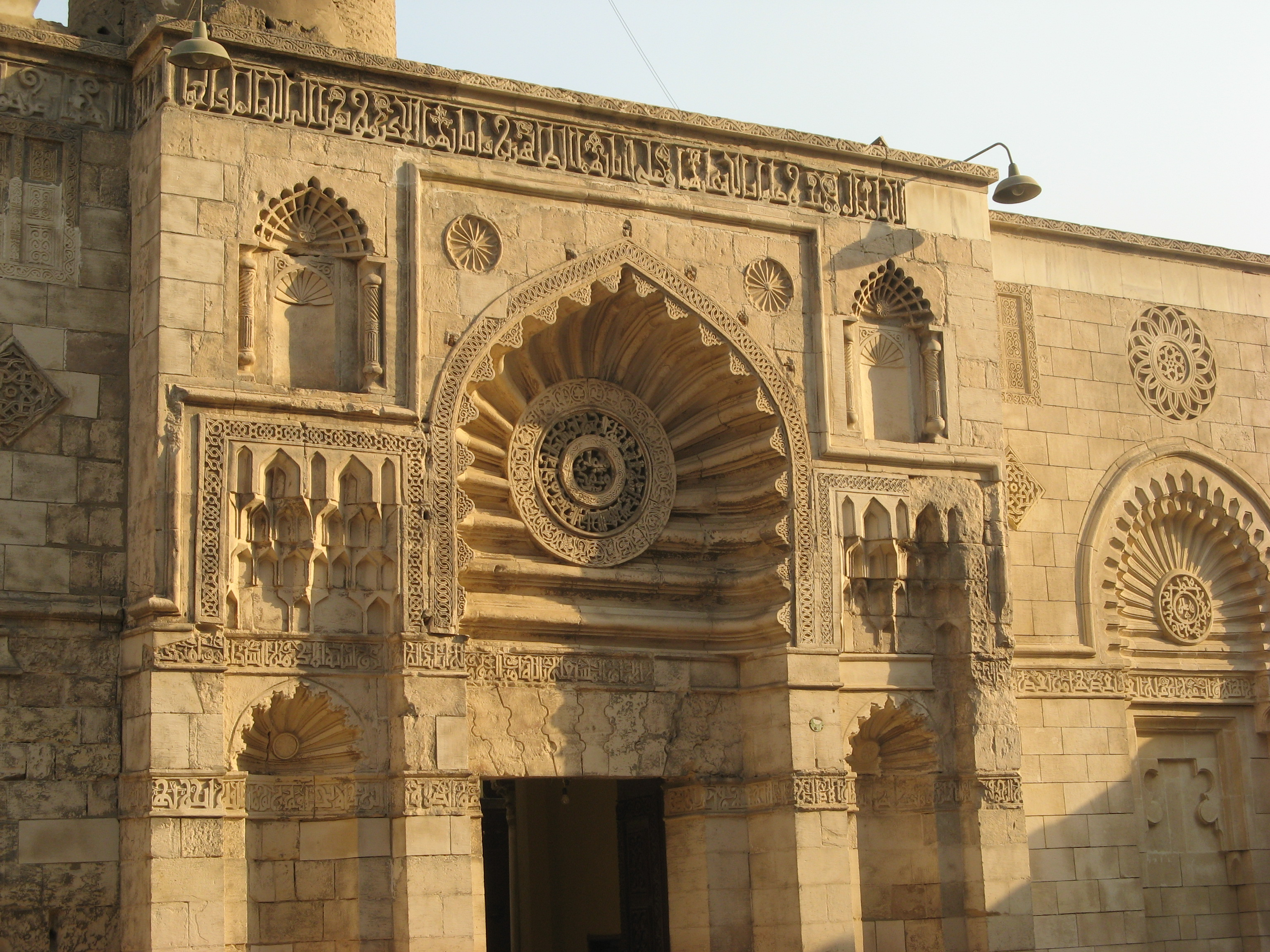 Central part of facade of A Aqmar mosque, Cairo